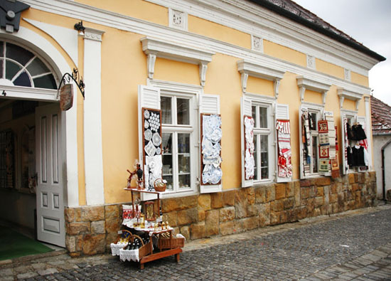 Szentendre, Decorated Shop Windows. The house has been built in 1860 and is now a national monument. The picture has been taken in front of 4 Bogdanyi Street, Szentendre, February 2009